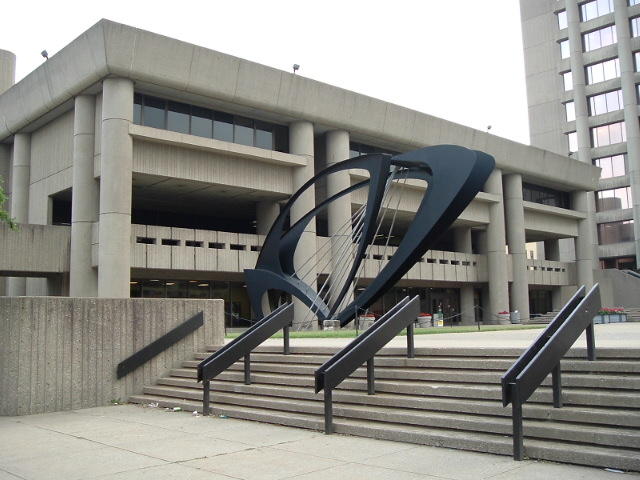 U of L HSC Library